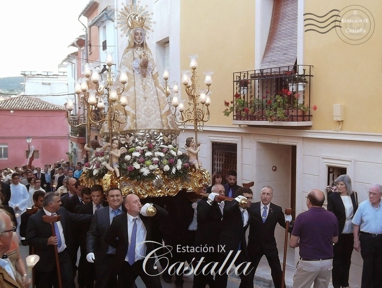 The Estación IX: Located in the historic center on a road leading to the castle of Castalla (in the province of Alicante), it is the ninth place on the “Route of the Cross” a pilgrimage which takes place every Easter.